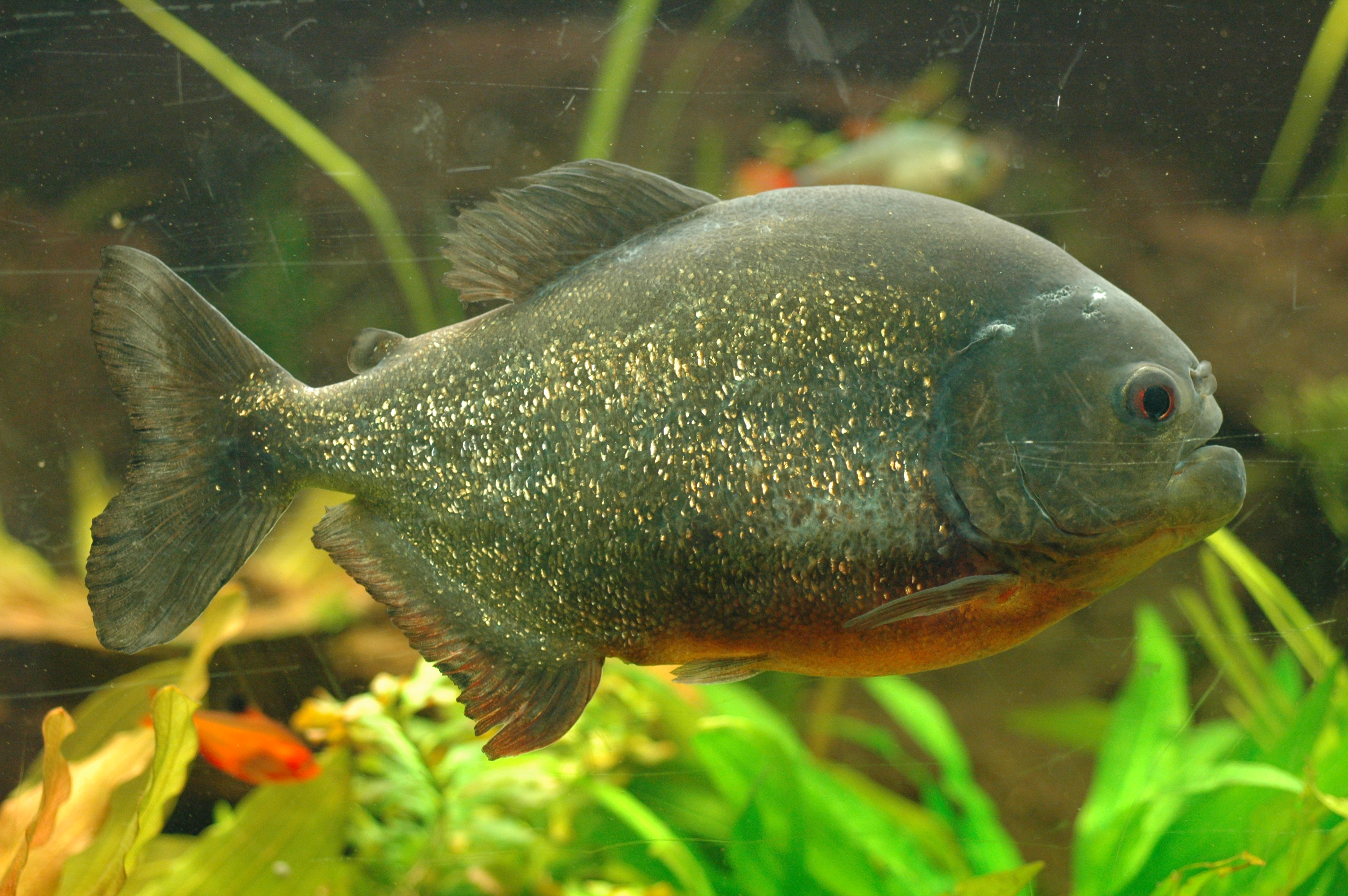 Red piranha